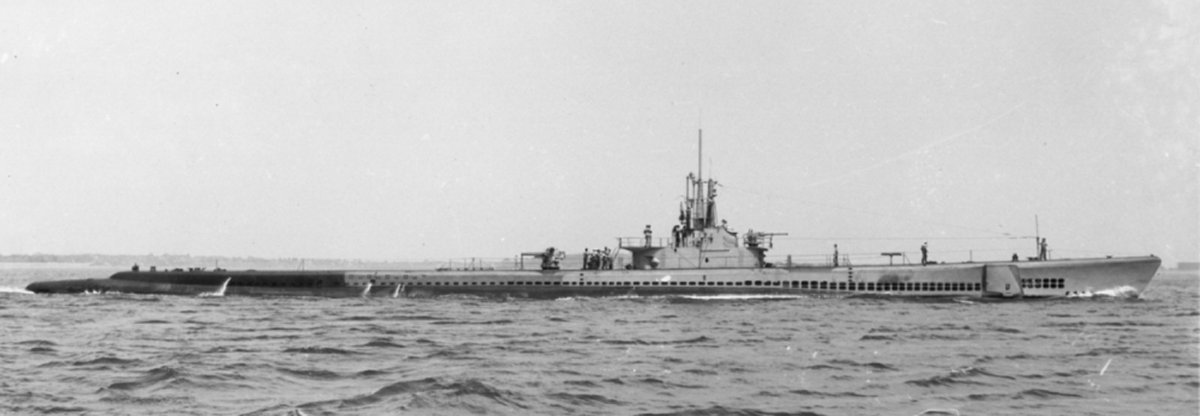 The U.S. Navy submarine USS Ling (SS-297) wearing a light camouflage paint scheme in this July 1945 photo during sea trials.